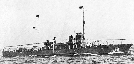 Romanian gunboat "Locotenent-Comandor Stihi Eugen", ex. French "Fripponne"